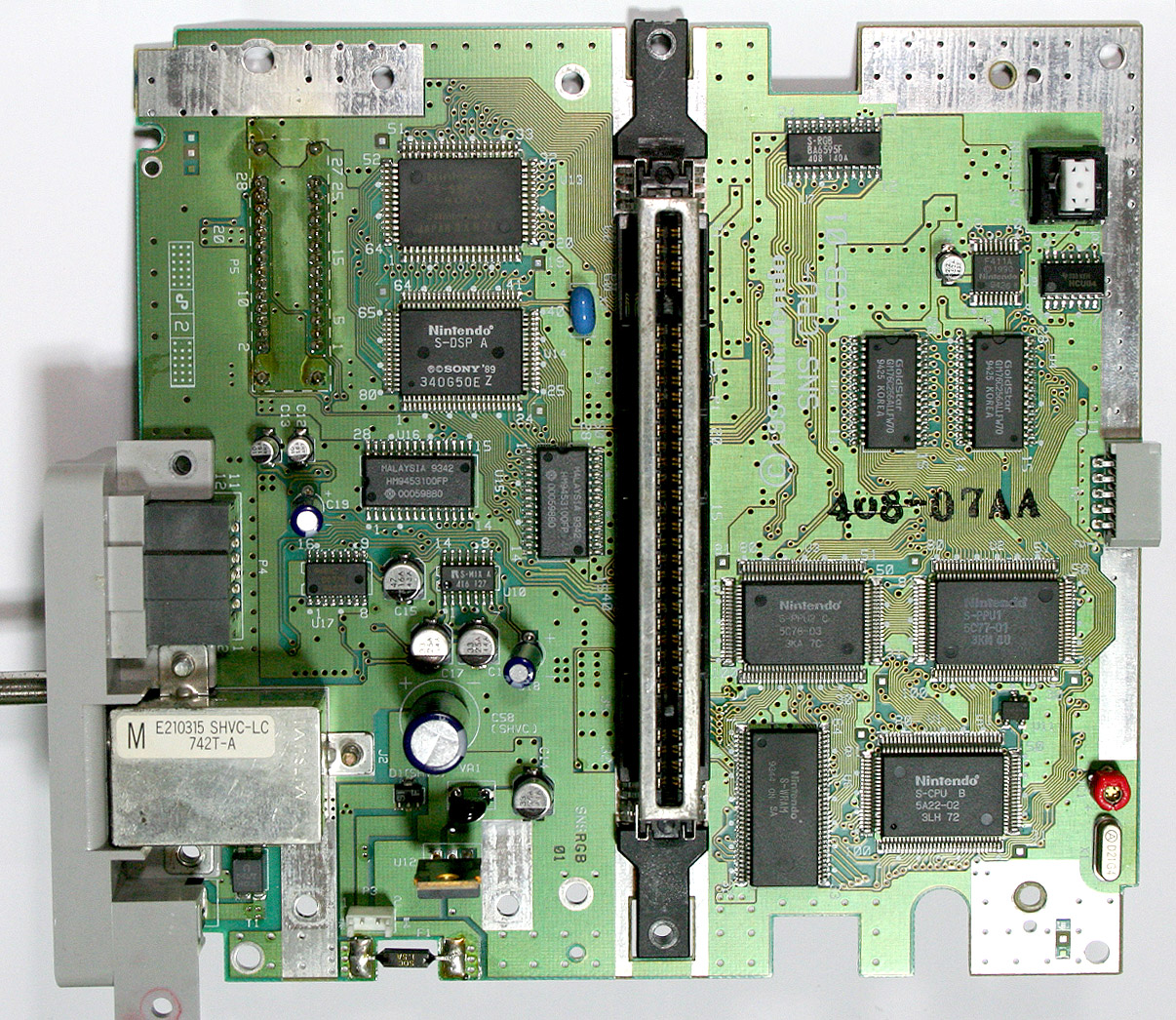 SFC board(No.SNES-CPU-RGB-01).